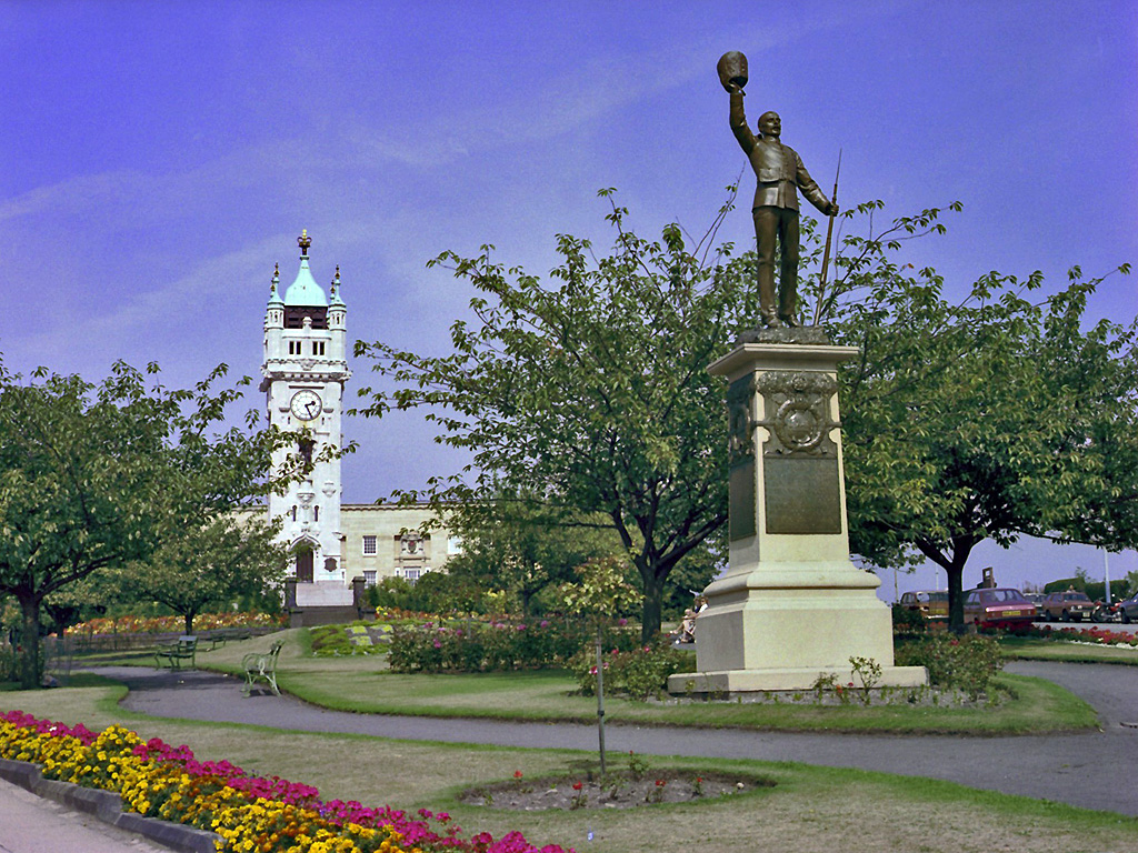 Two landmarks in Bury, Greater Manchester, England: The 20th of Foot Boer Lancashire Fusiliers War Nemorial in Tower Gardens, and the Whitehead Clock Tower behind.